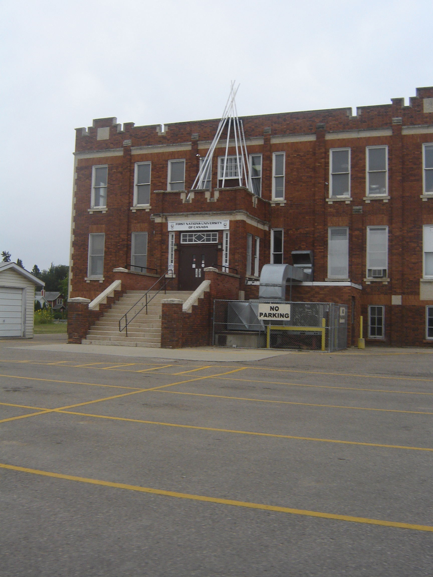 Wilson School Elementary Public School from 1994 to 2011 the First Nations University of Canada City Park Saskatoon Saskatchewan